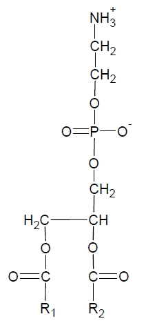 Structure formula of phosphatidylethanolamine.